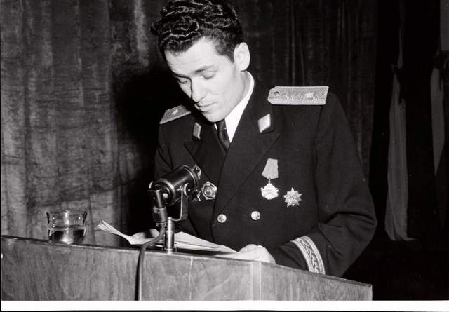 Svečana akademija u Narodnom pozorištu uoči Dana armije, Beograd, 21.12.1950. Inventarski broj: 1950-51 008 058